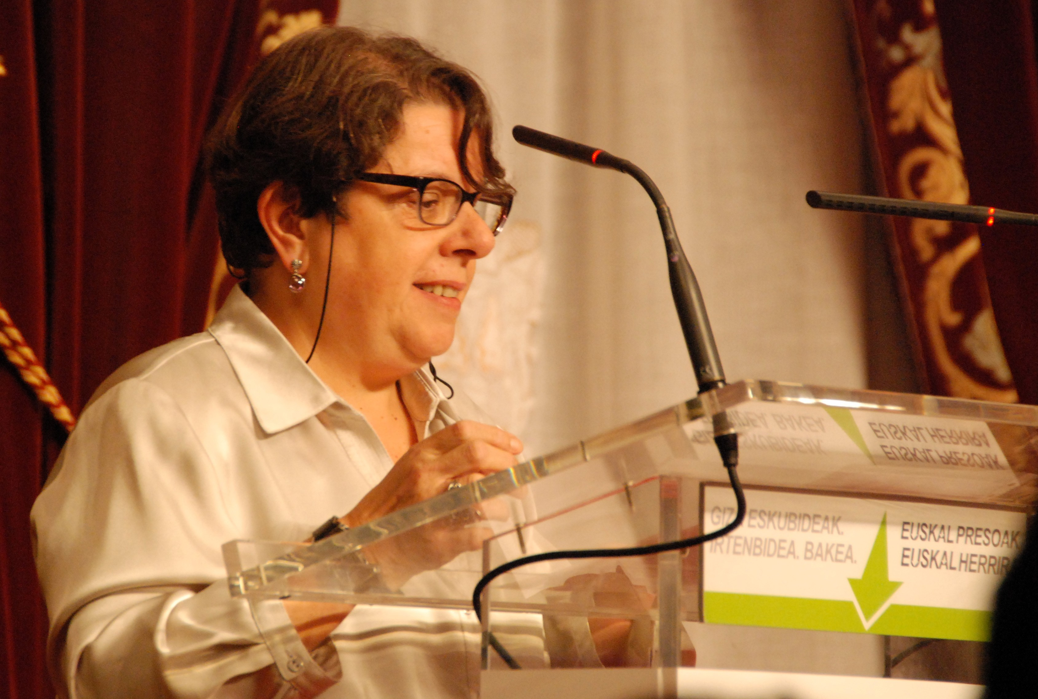 Arantza Diaz de Ilarraza winner of Abbadia Award